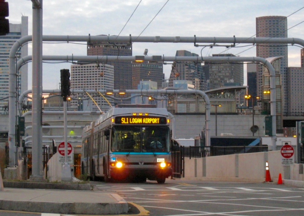 An MBTA Silver Line Waterfront dual-mode trolley bus at the top of the ramp from the tunnel and about to cross D Street, on the transit-only street Silver Line Way. The vehicle (No. 1126) was built by Neoplan USA in 2005.